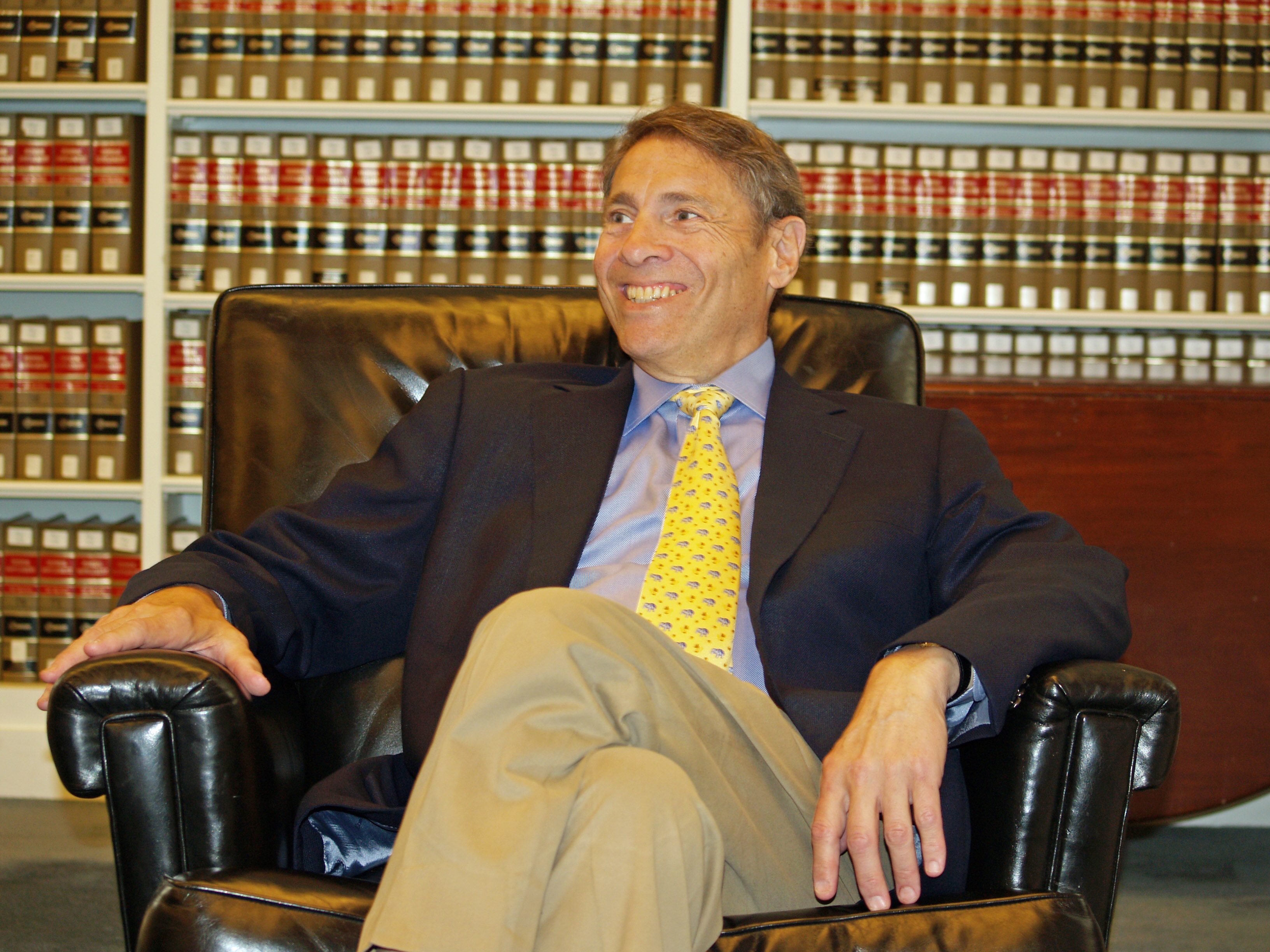 Michael Levine 3 by David Shankbone